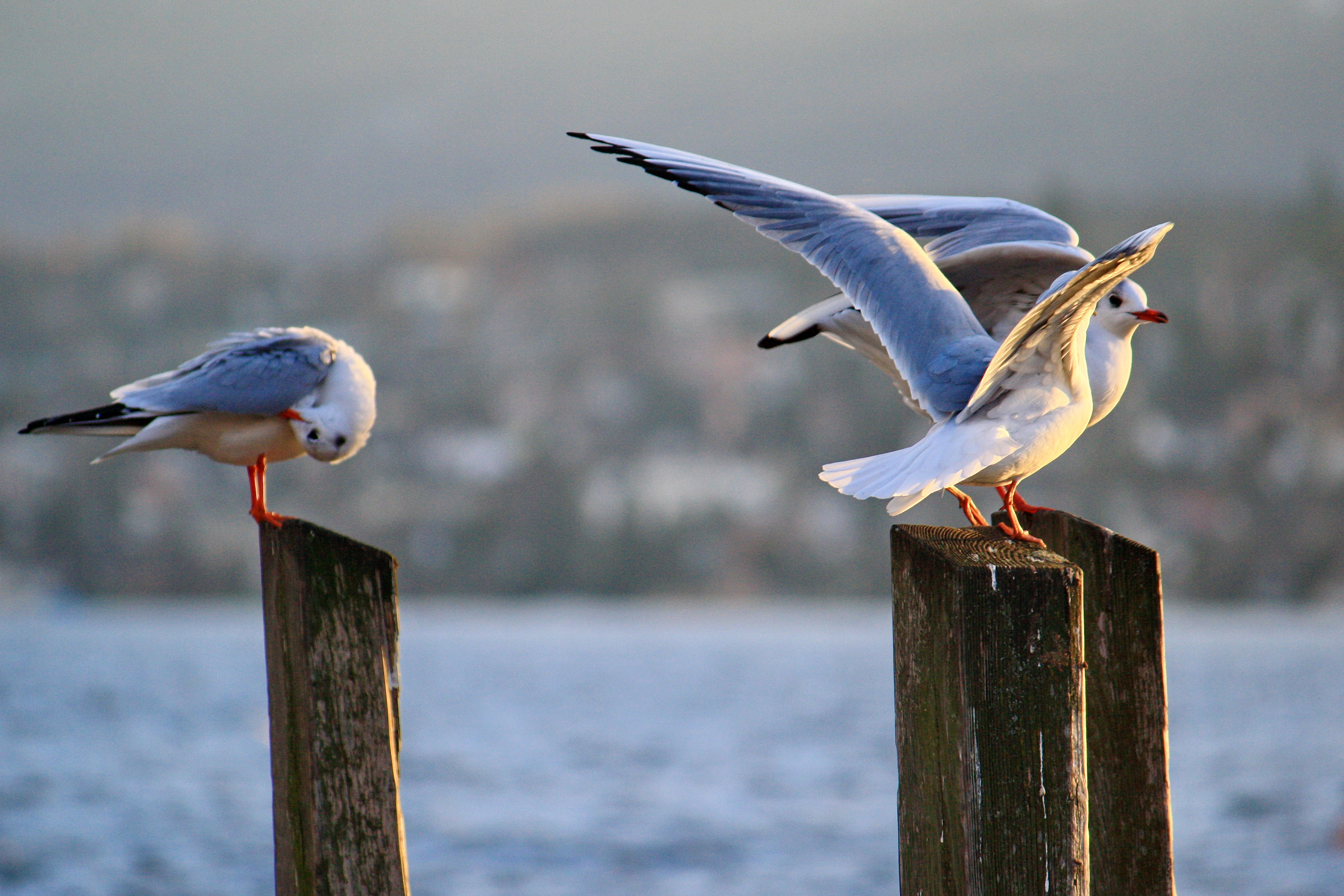 Chroicocephalus ridibundus at Riesbach harbour in Zürich-Seefeld